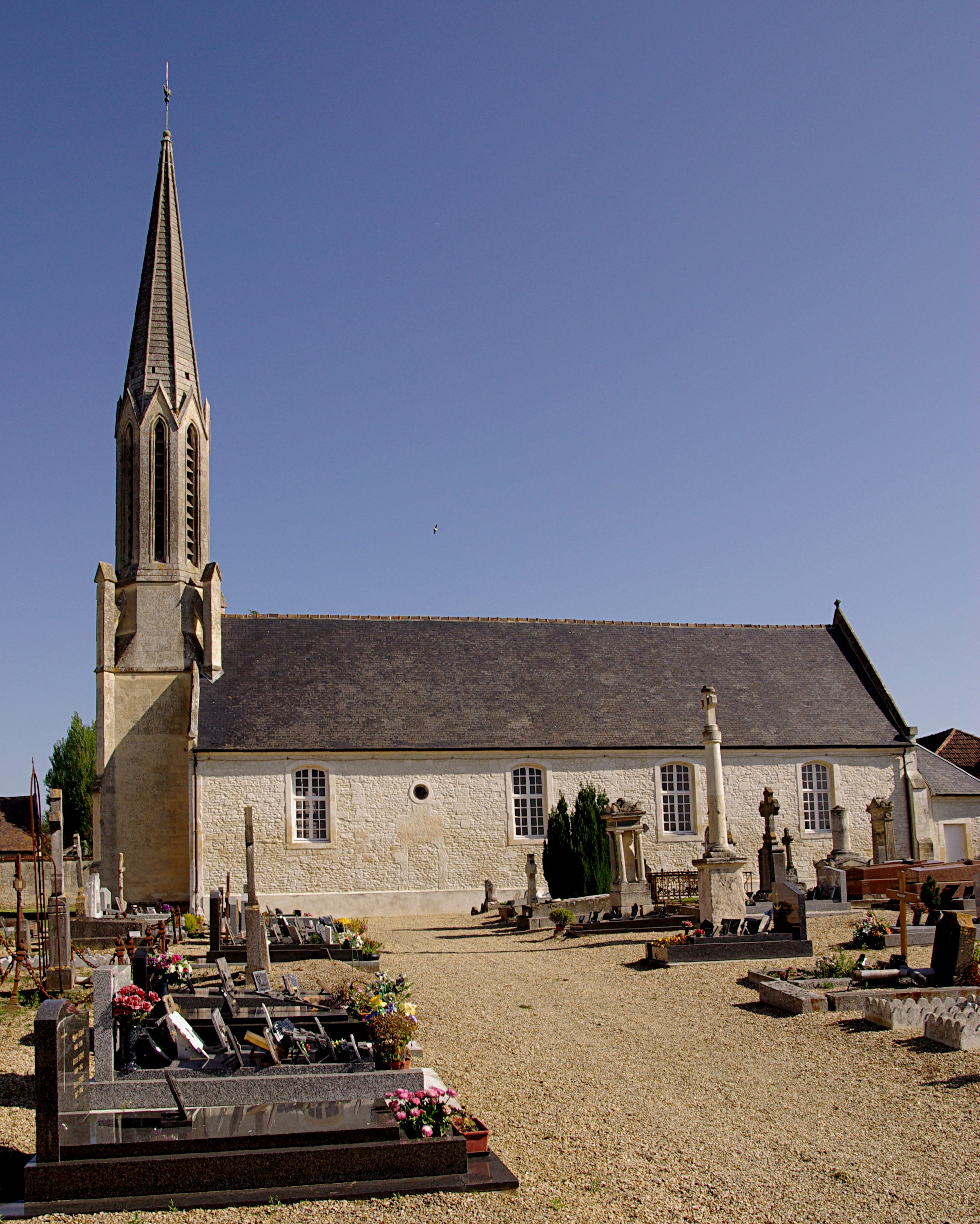 L'église Notre-Dame of Petiville calvados 14 France